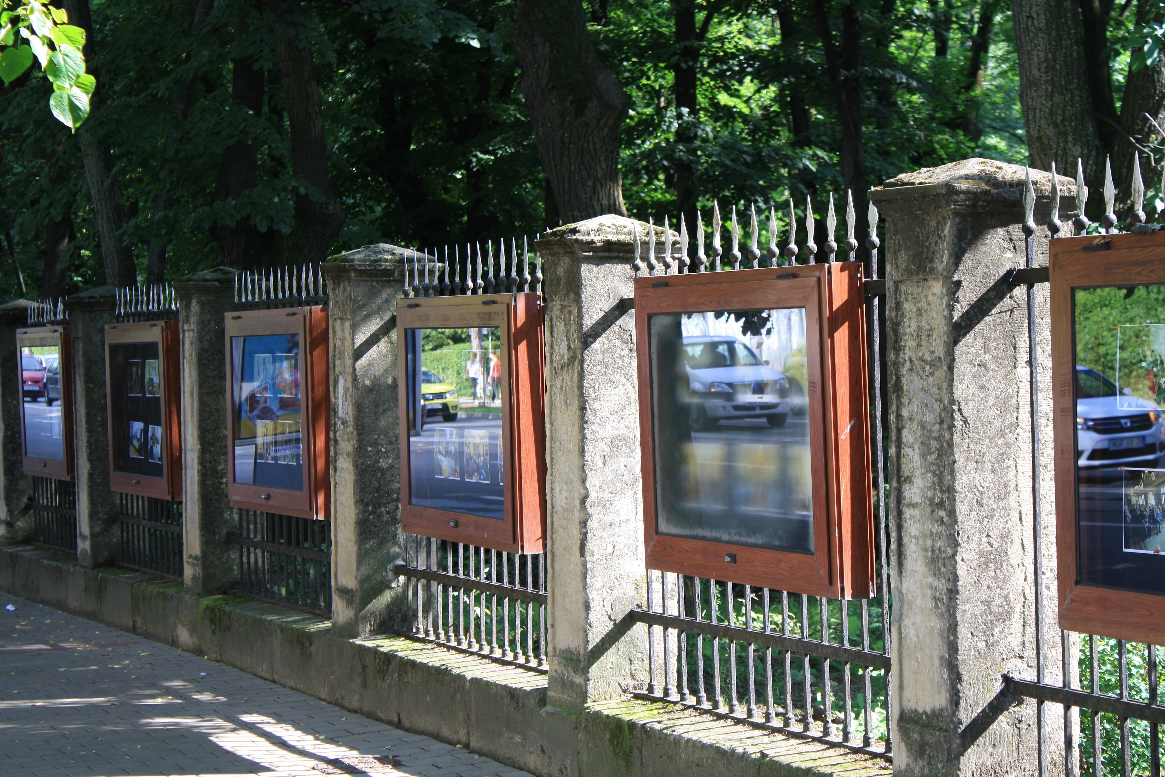 Parcul Copou (gard est) (2)